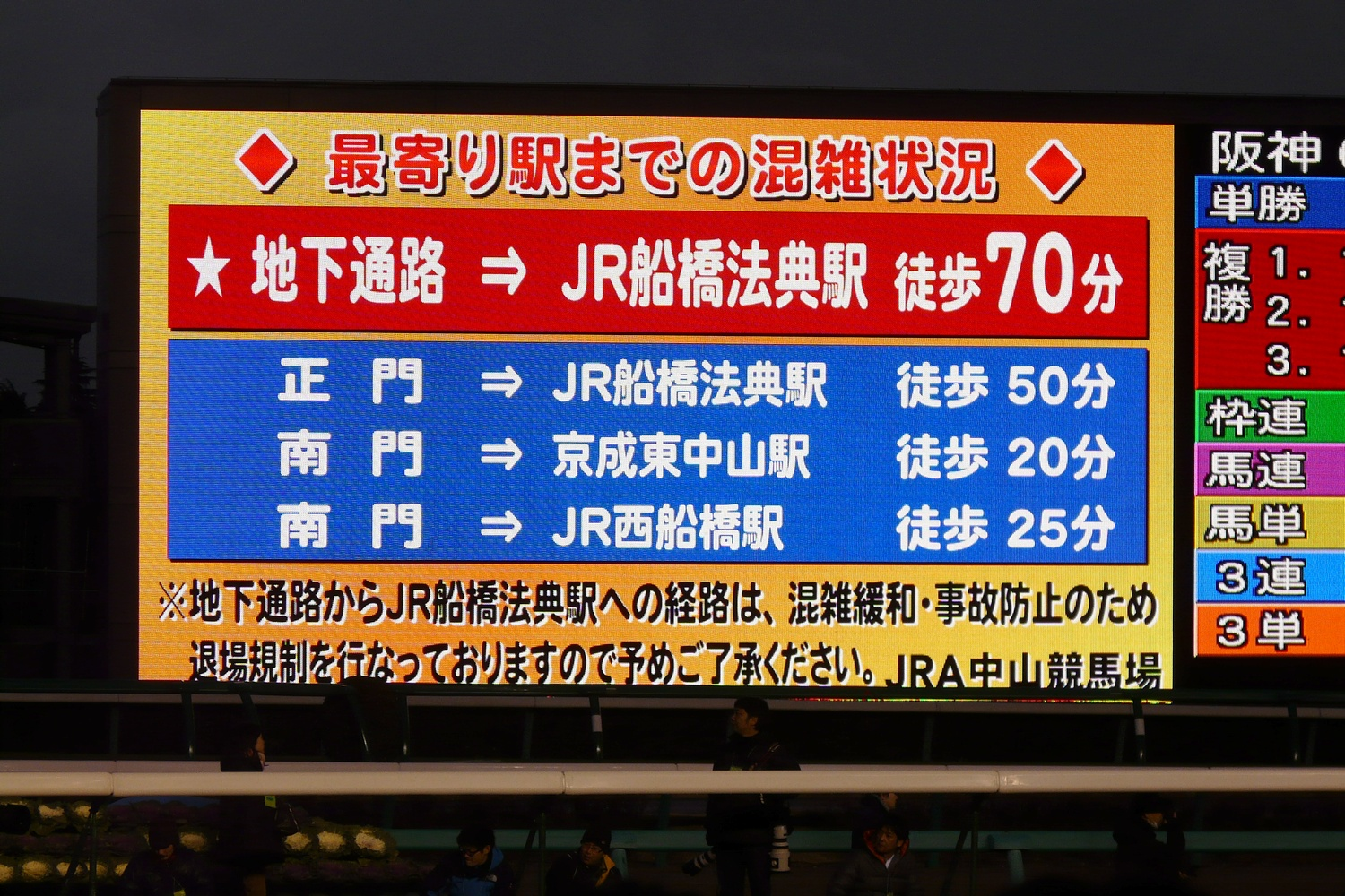 Nakayama-Racecourse10